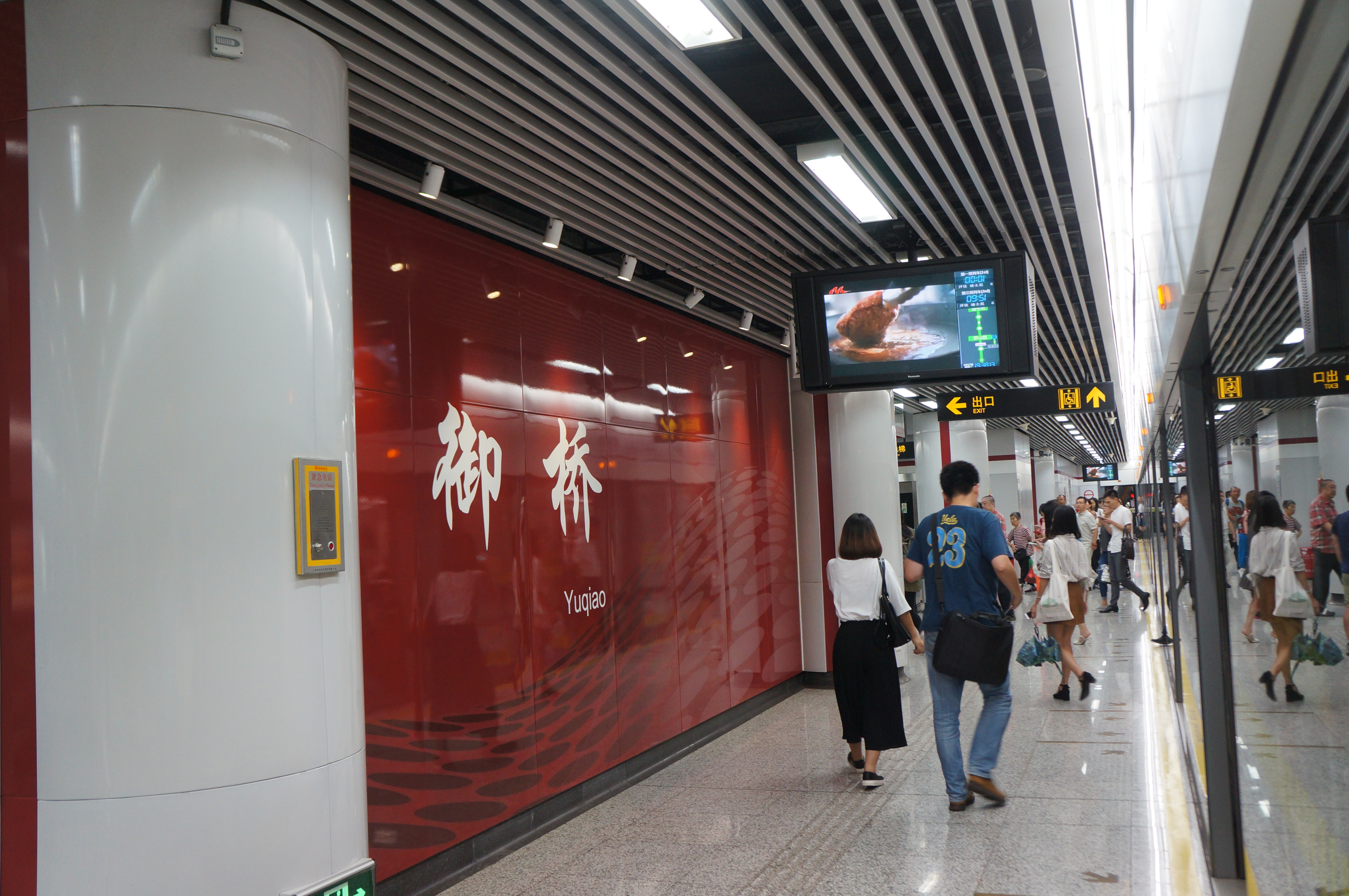 201609 Nameboard of Yuqiao Station